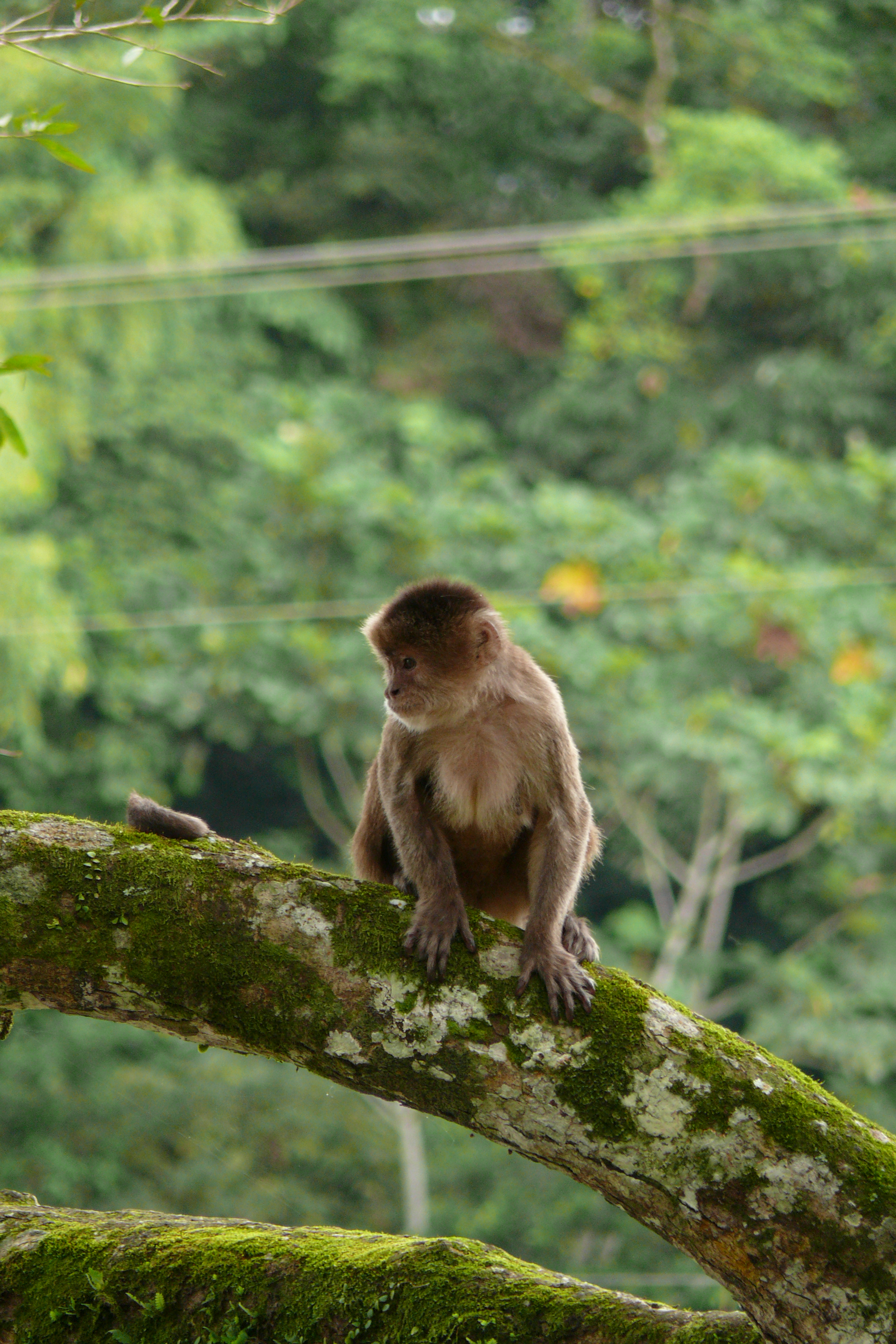 Marañon White-fronted Capuchin or Peruvian White-fronted Capuchin (Cebus yuracus)